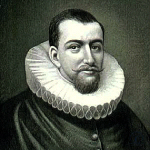 picture of Henry Hudson